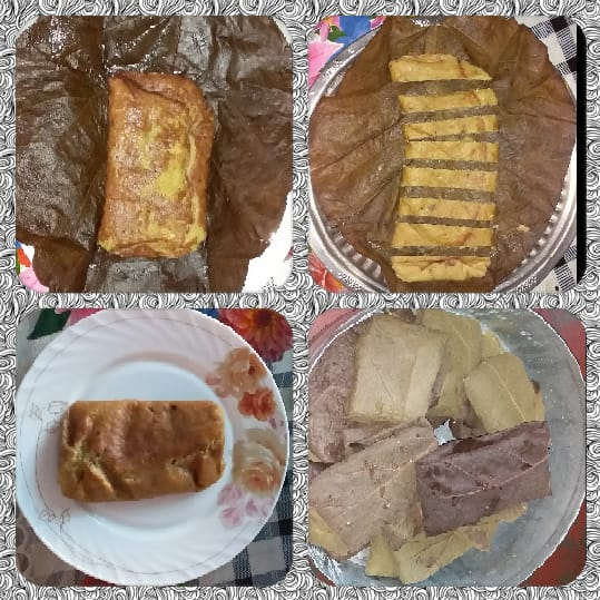 Chekkero-Appa Prepared in Thondhur.